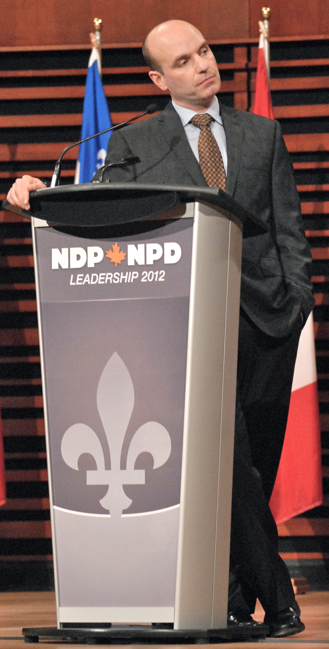 Nathan Cullen, New Democratic Member of Parliament for the electoral district of Skeena—Bulkley Valley, during the debate of the candidates to the leadership of the New Democratic Party of Canada, February 12, 2012 in Québec